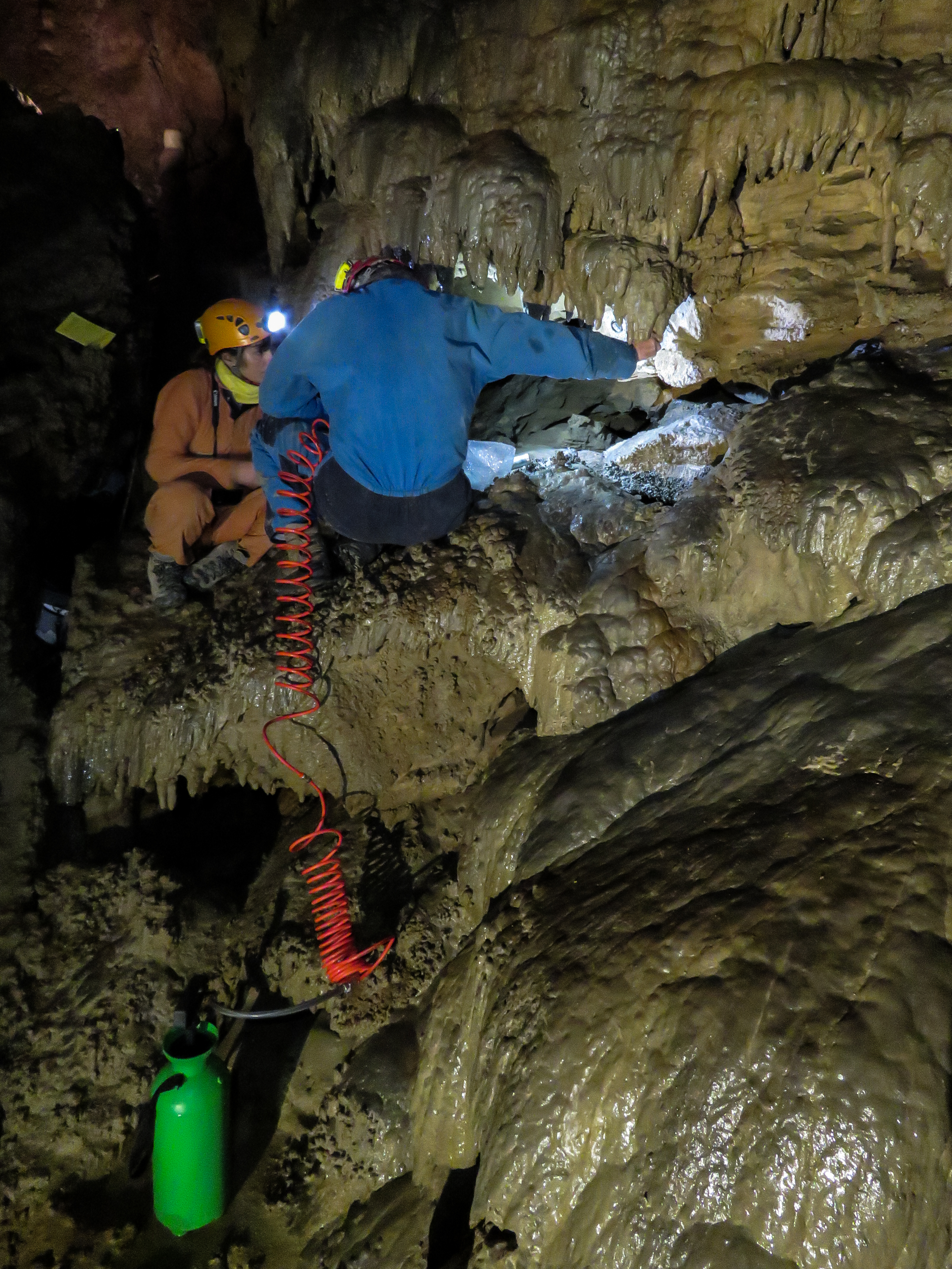 A resercher of the INGV (National Institute of Geophysics and Volcanology) and a speleologist making a coring with a special drill in a formation of limestone in the cave “Antro del Corchia” in the Apuan Alps. The researcher was studiyng the paleomagnetism in this cave to compare it to other paleoclimatology knowledge of the world.